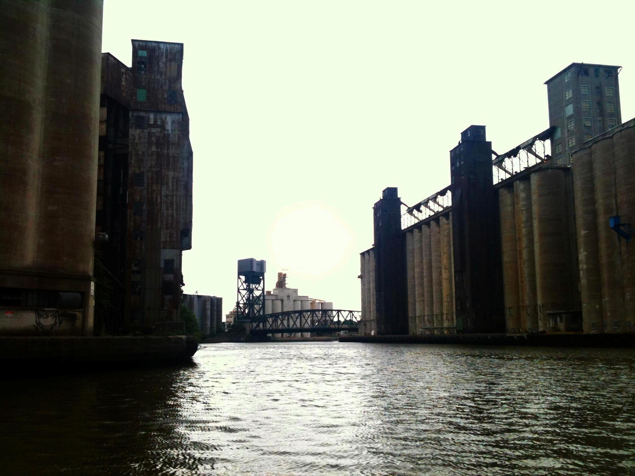 "Elevator Alley", the stretch of the Buffalo River immediately adjacent to the harbor that is lined with historic grain elevators, is visited by several of the tour boats that operate out of Buffalo Harbor - including the Queen City Ferry, from which this photo was taken.